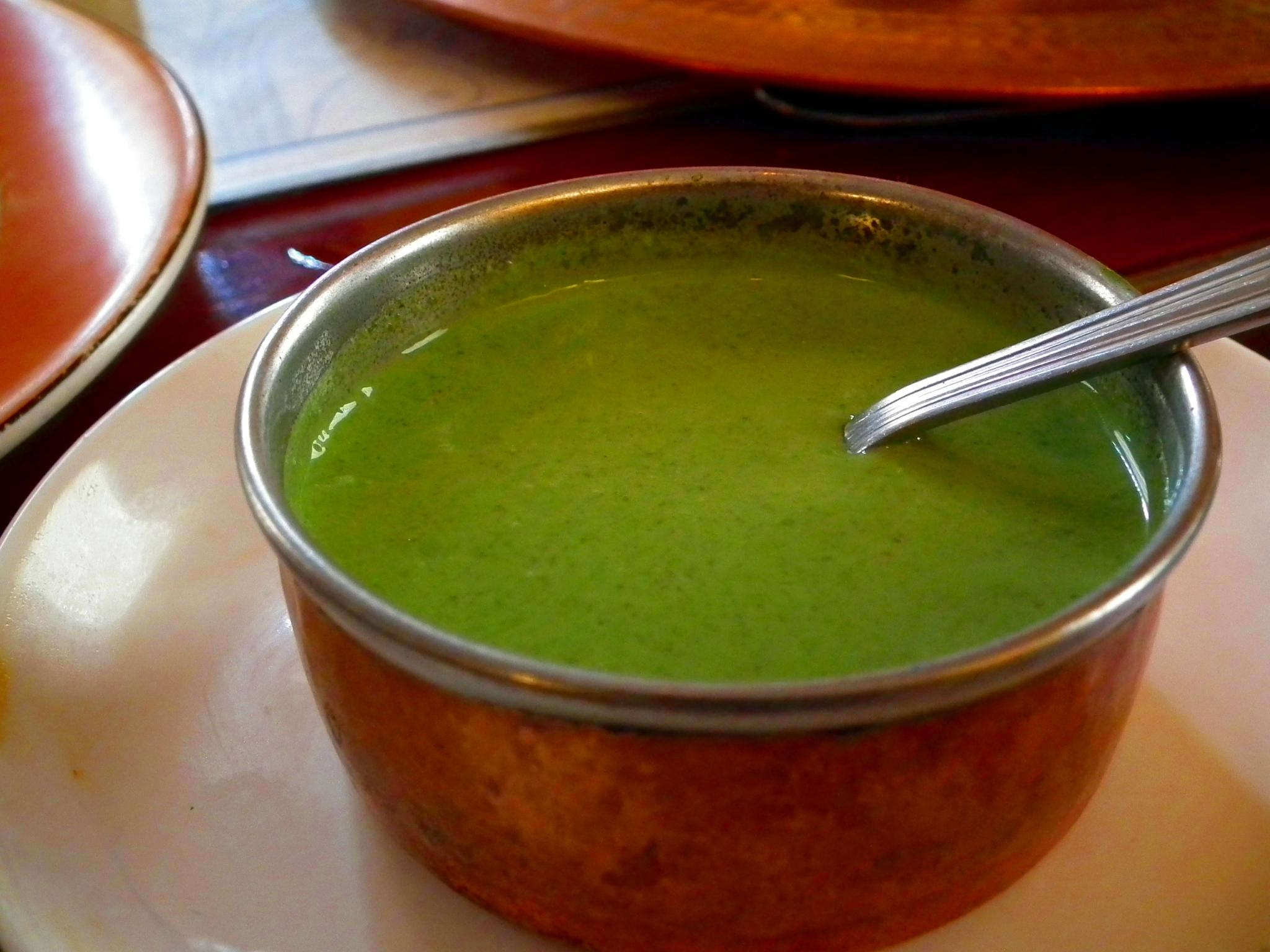 Chutney (Hindi: चटनी) is a loan word incorporated into English from Hindi-Urdu describing a pasty sauce in South Asia